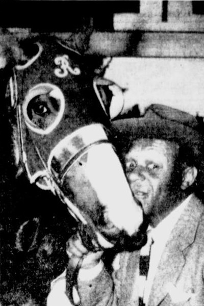 Photo of Eddie Anderson with his race horse, Burnt Cork, before his historic Kentucky Derby run, 1943. Burnt Cork, who was the first African-American owned horse to compete in the Kentucky Derby. Kentucky Derby Stories Jim Bolus, Pelican Press, 1998. A search of copyright renewals under artwork for the years 1970 and 1971 show no renewals for Associated Press. A search of copyright renewals under periodicals for the same time frame show that the Spokane Daily Chronicle did not renew their issues for this time period. Another copy of the photo was published in The Decatur Herald page 13, April 29, 1943. The same check for renewal was done in the same time frame as above for The Decatur Herald. This newspaper also shows no renewals. There is no evidence that copyright continues to be claimed on this material if it was ever claimed at all.